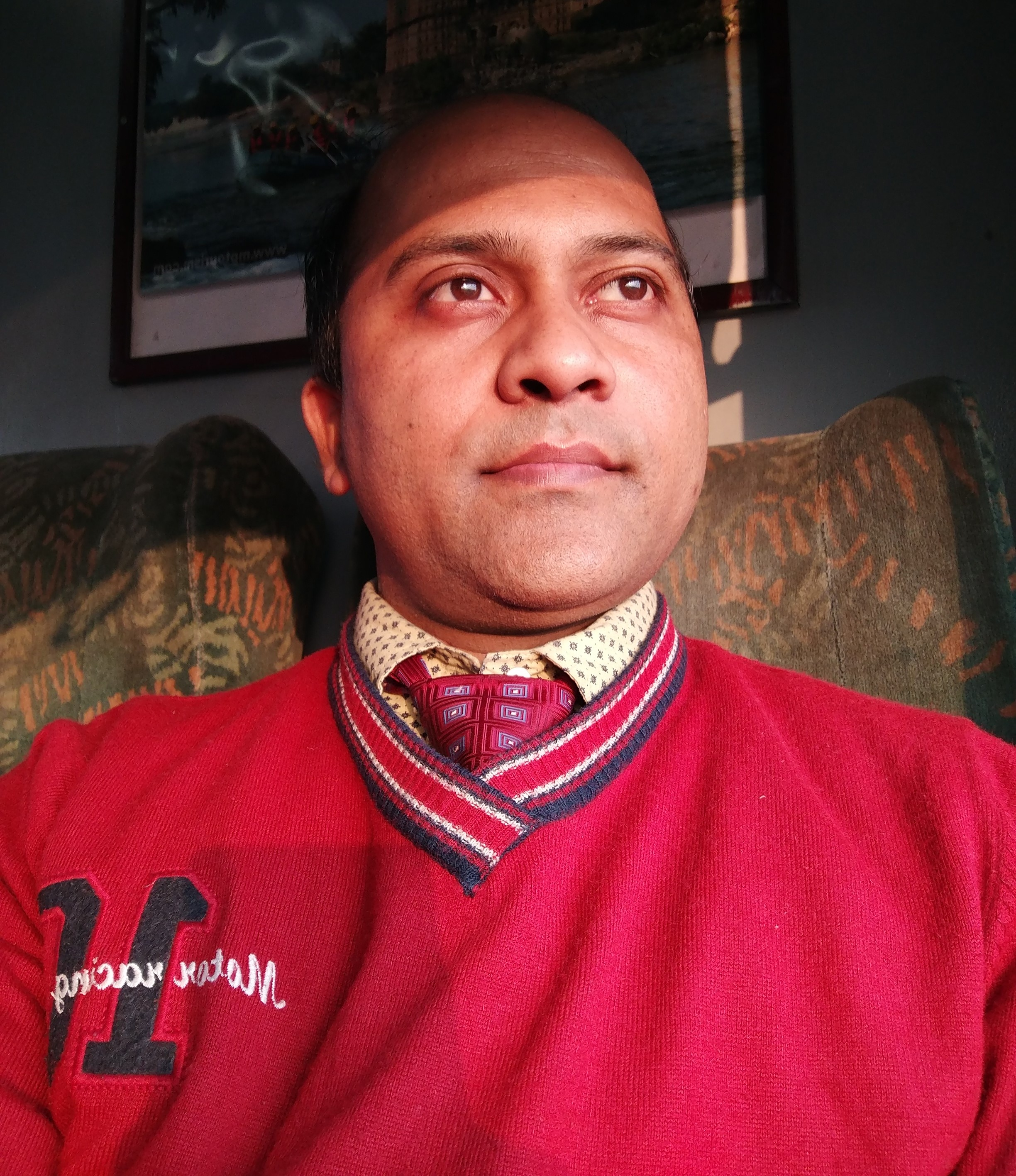 Ganesh Bagler Snap in Train Free